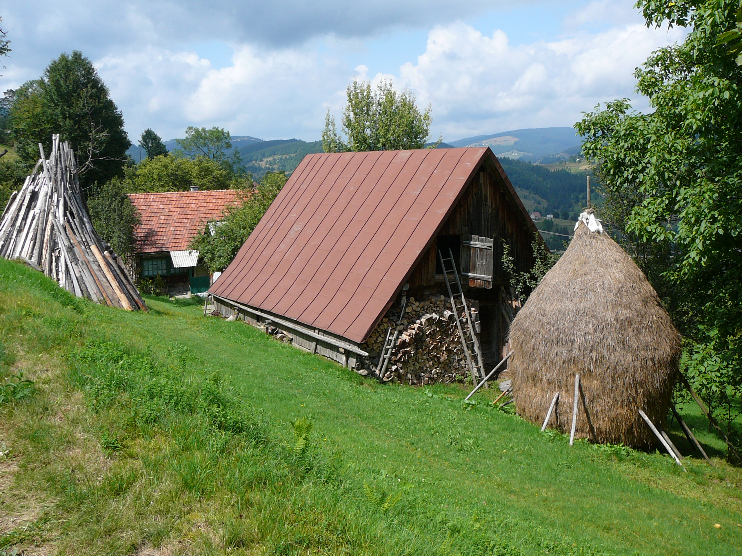 Farm in Galbena, in Arieşeni, Romania